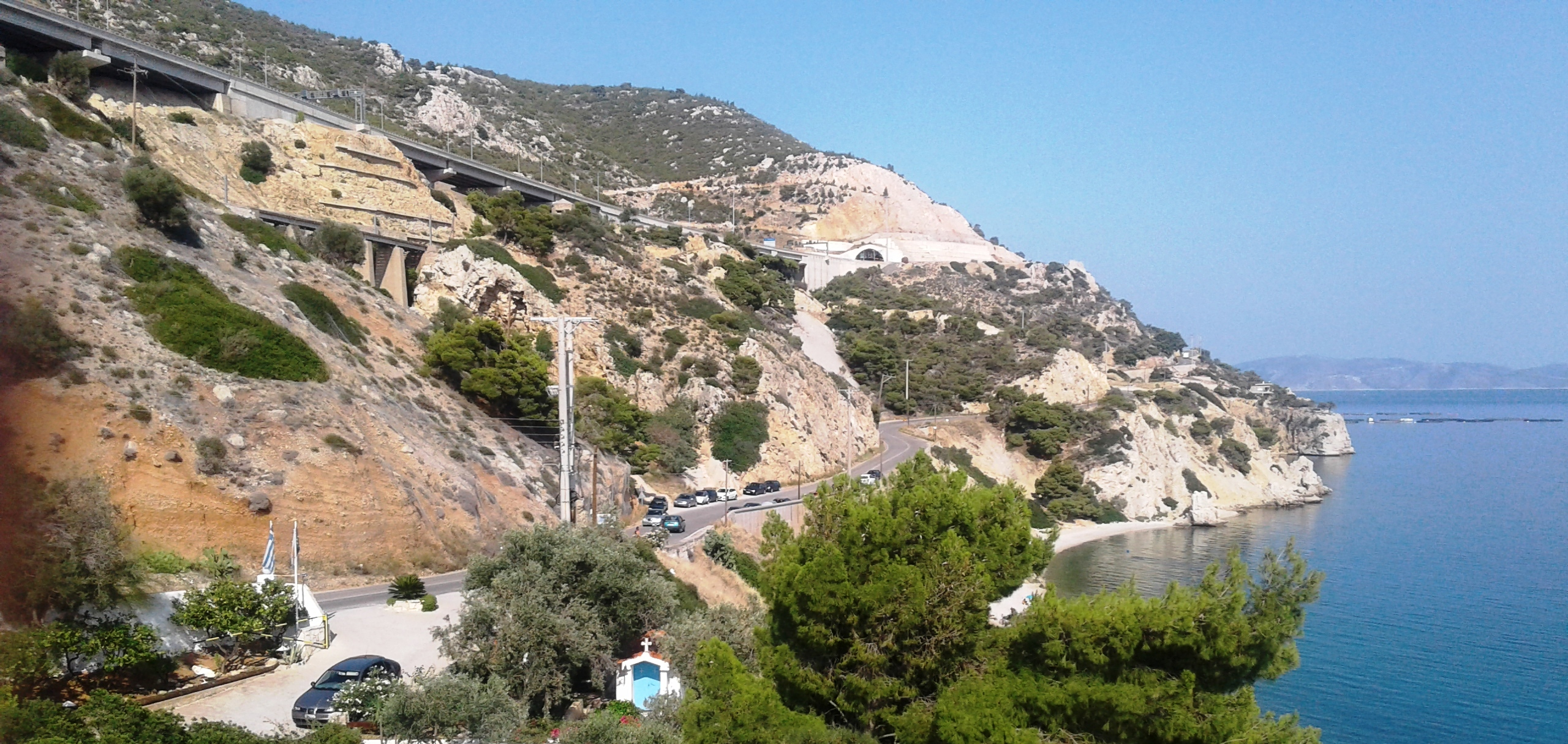 Skironian Rocks near Megara